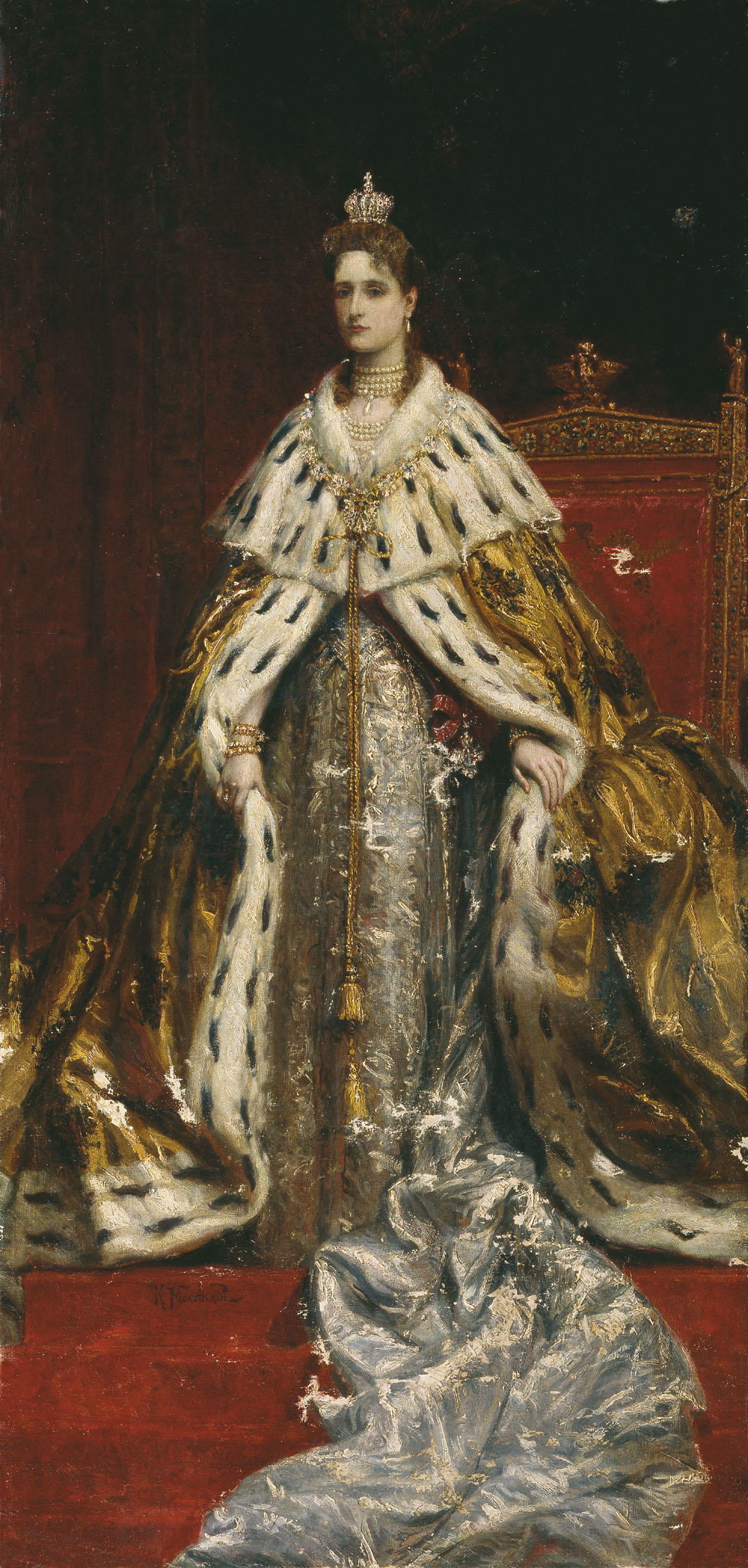 Portrait of Alexandra Feodorovna (Alix of Hesse) (1872-1918), Empress Alexandra Fyodorovna of Russia (1872-1918), the wife of Tsar Nicholas II, 1890s. Makovsky, Konstantin Yegorovich (1839-1915).